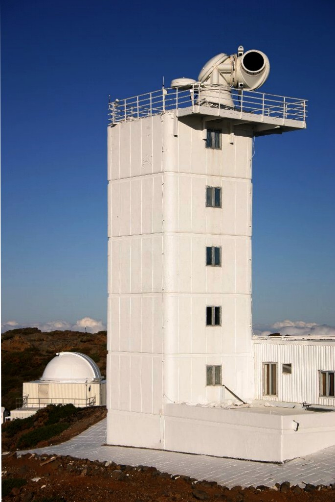 Made and released into the public domain by Tim van Werkhoven. This is an image of the Swedish Solar Telescope while it was up and running.